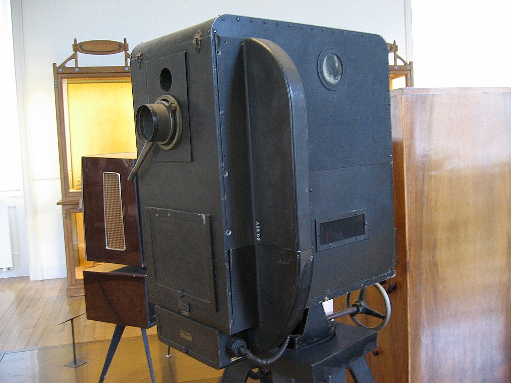 TV Camera build by René Barthélémy (1935) - CNAM